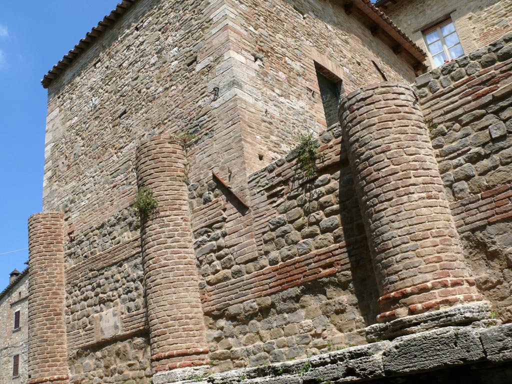 Bevagna, Ruins of the roman tempel